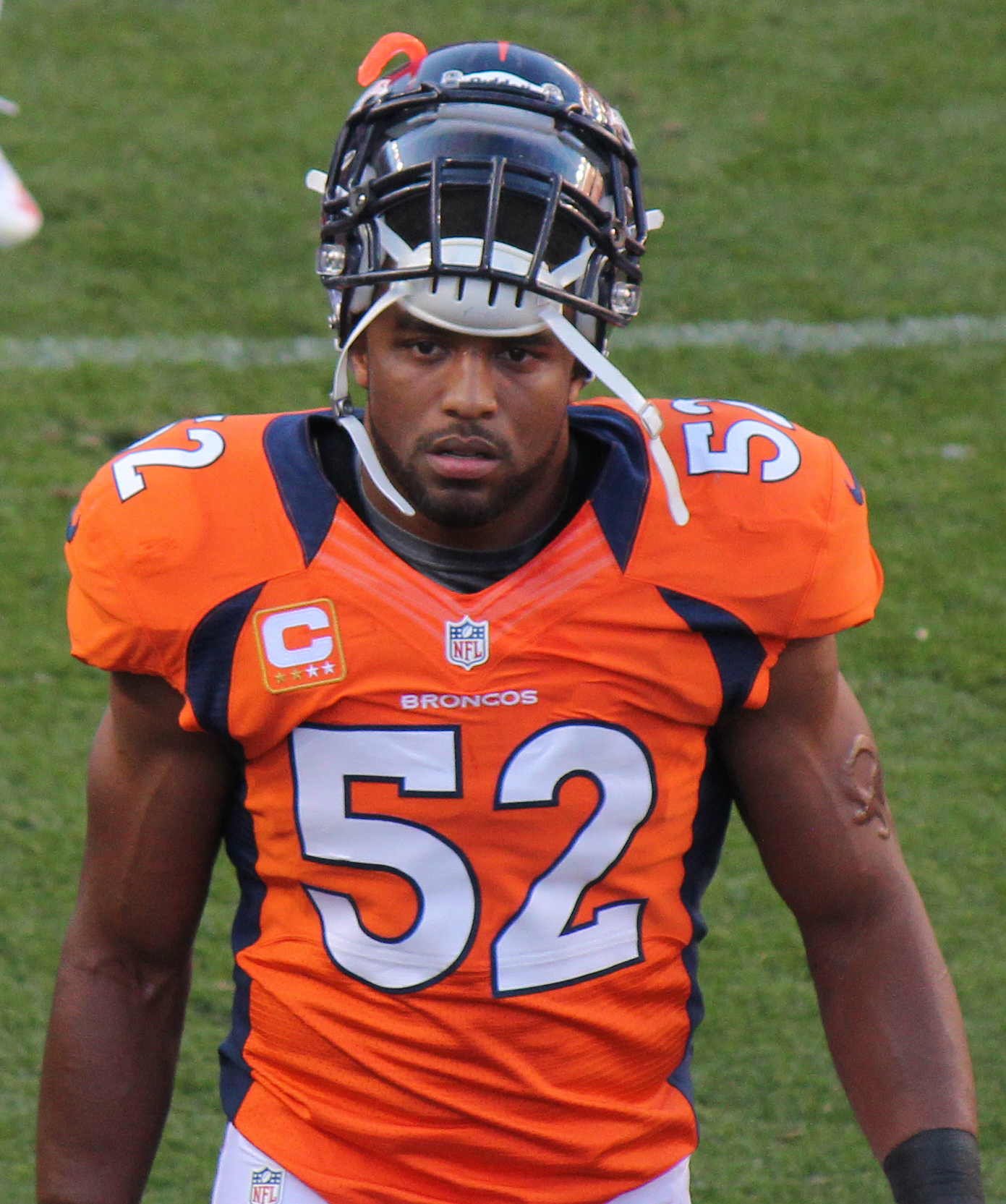 Wesley Woodyard, a player on the National Football League.